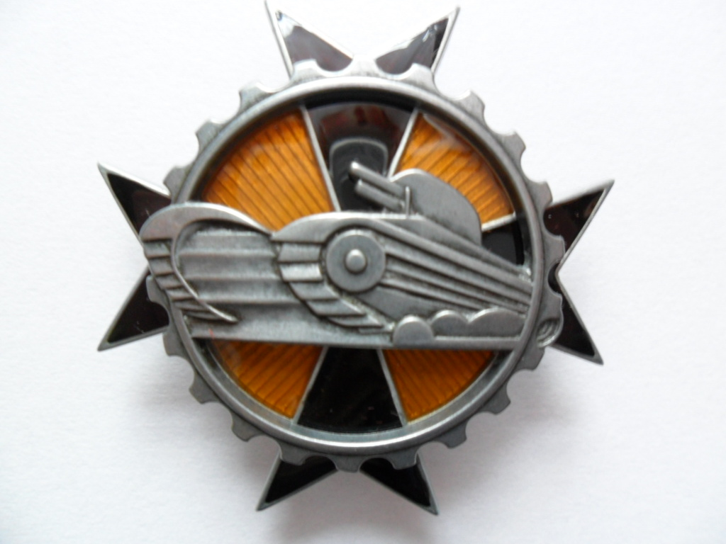 3 Armoured Battalion Badge